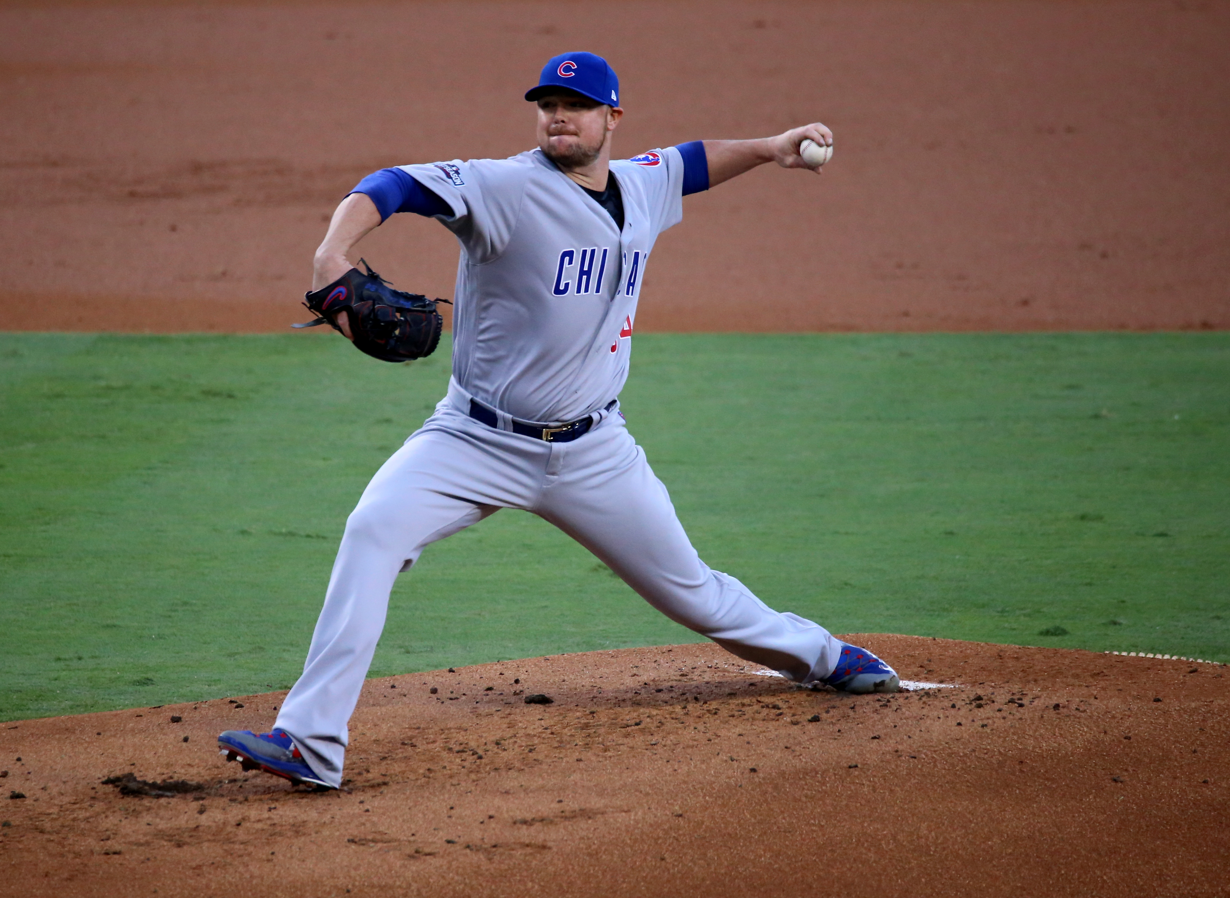 Cubs starter Jon Lester delivers a pitch during the first inning of #NLCS Game 5.